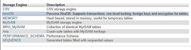 MySq_iin engine_vvd